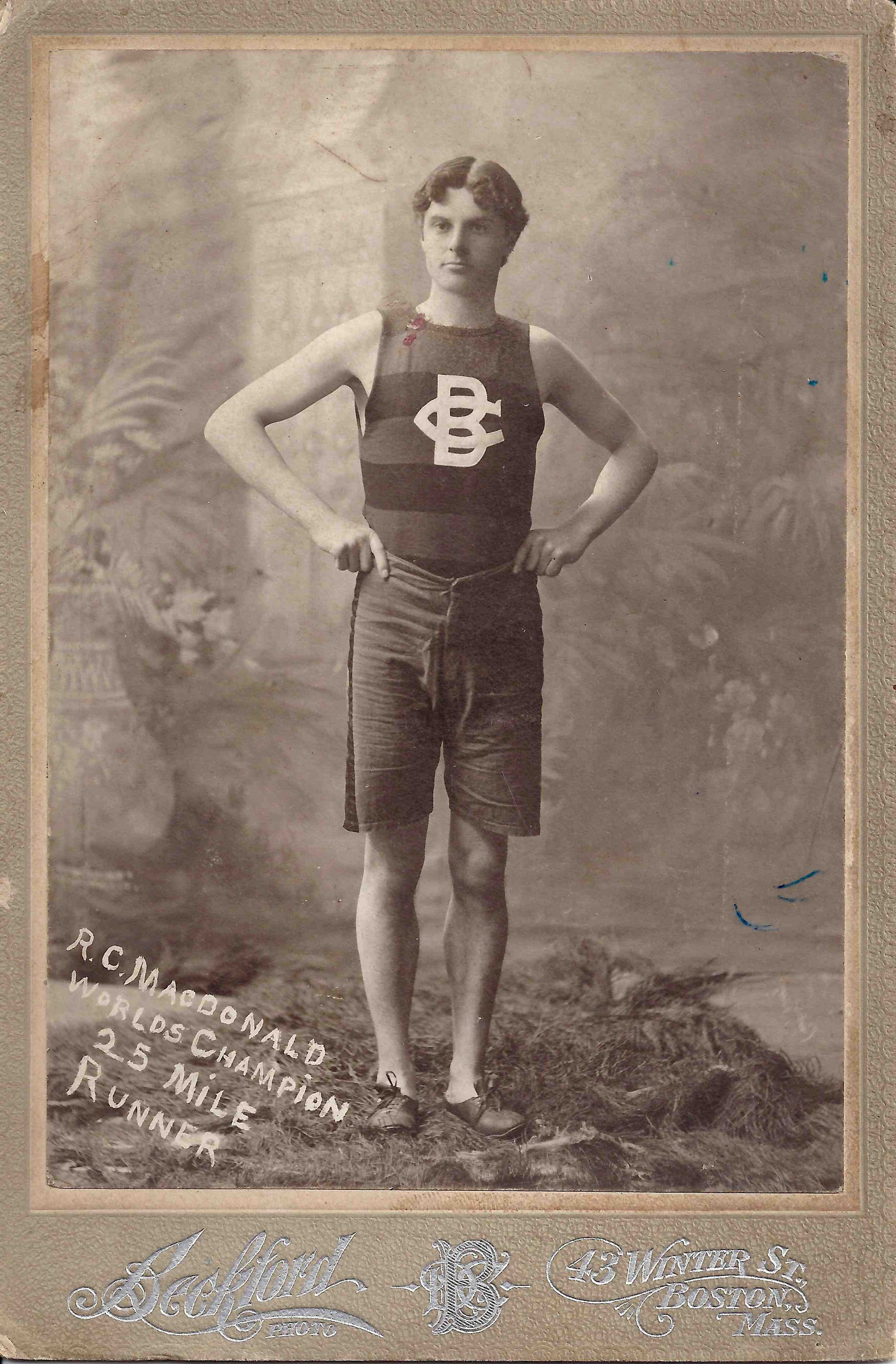 Robert MacDonald World Champion 25 Mile Runner